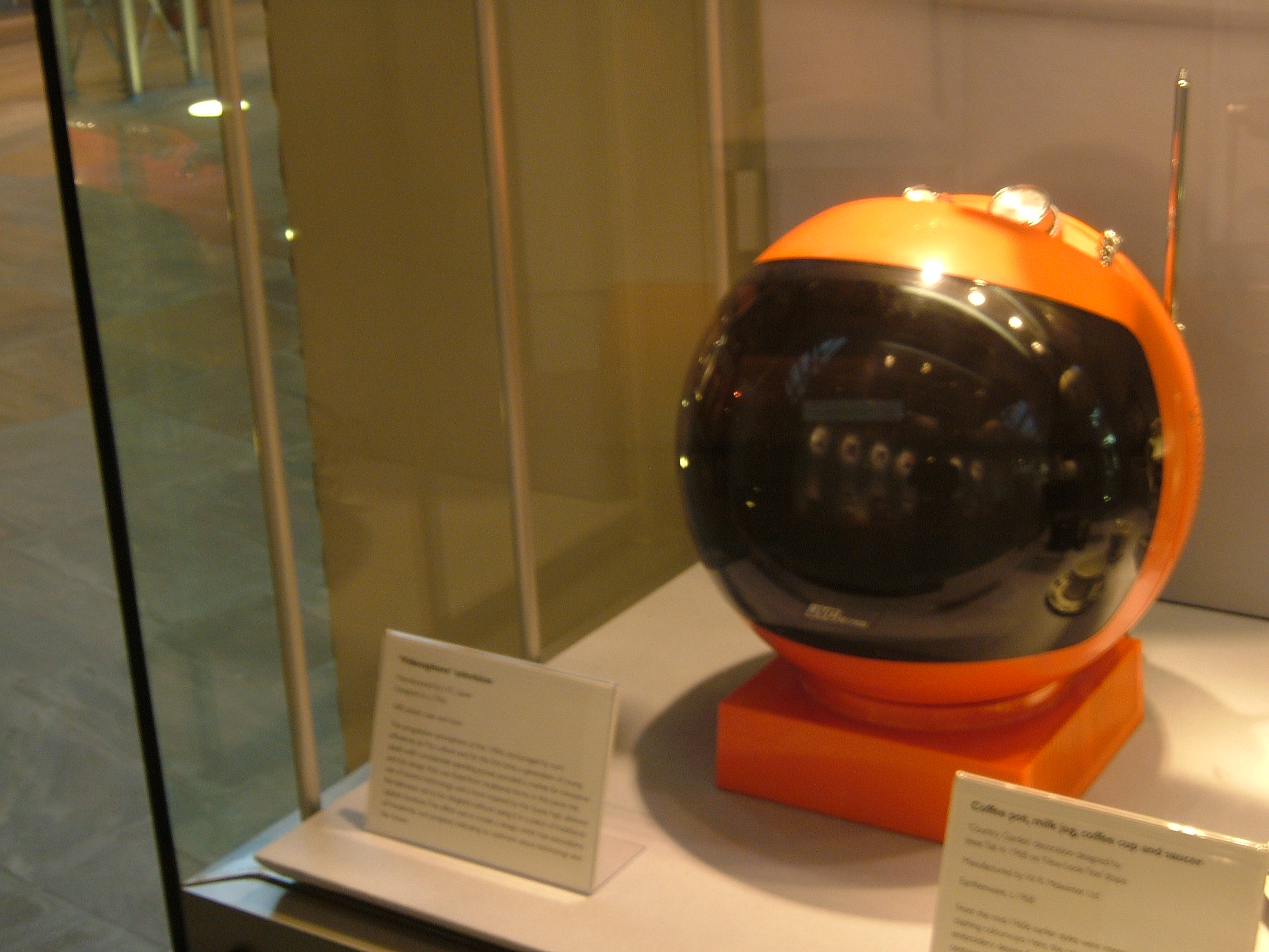 JVC Videosphere at the Geffrye Museum. Taken in 2006 by myself. All rights released.